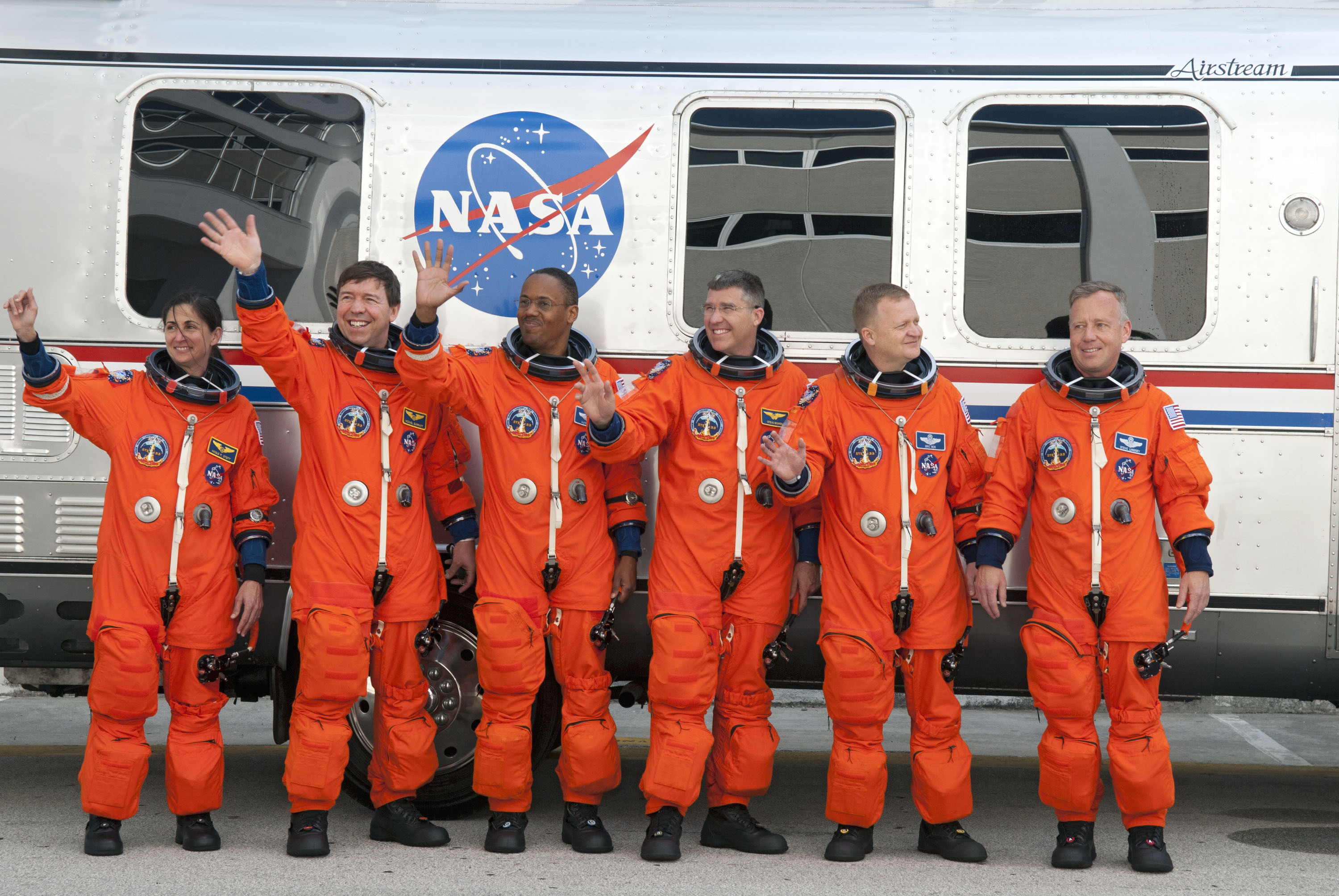 CAPE CANAVERAL, Fla. – At the Operations and Checkout Building at NASA's Kennedy Space Center in Florida, space shuttle Discovery's STS-133 astronauts, dressed in their orange launch-and-entry suits, pause for a group portrait in front of the Astrovan which will transport them to Launch Pad 39A. From left are Mission Specialists Nicole Stott, Michael Barratt, Alvin Drew and Steve Bowen; Pilot Eric Boe; and Commander Steve Lindsey. Discovery and its six-member crew will deliver the Permanent Multipurpose Module, packed with supplies and critical spare parts, as well as Robonaut 2, the dexterous humanoid astronaut helper, to the International Space Station. Discovery, which will fly its 39th mission, is scheduled to be retired following STS-133. This will be the 133rd Space Shuttle Program mission and the 35th shuttle voyage to the space station. For more information on the STS-133 mission, visit